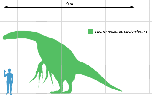 Size comparison of Therizinosaurus cheloniformis and a human. Adapted from a skeletal diagram by Jaime Headden.